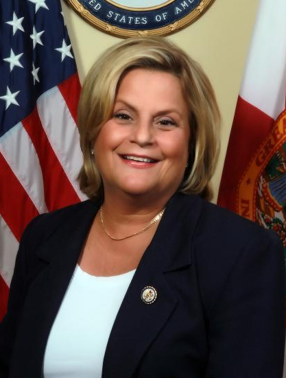 Ileana Ros-Lehtinen's official photo